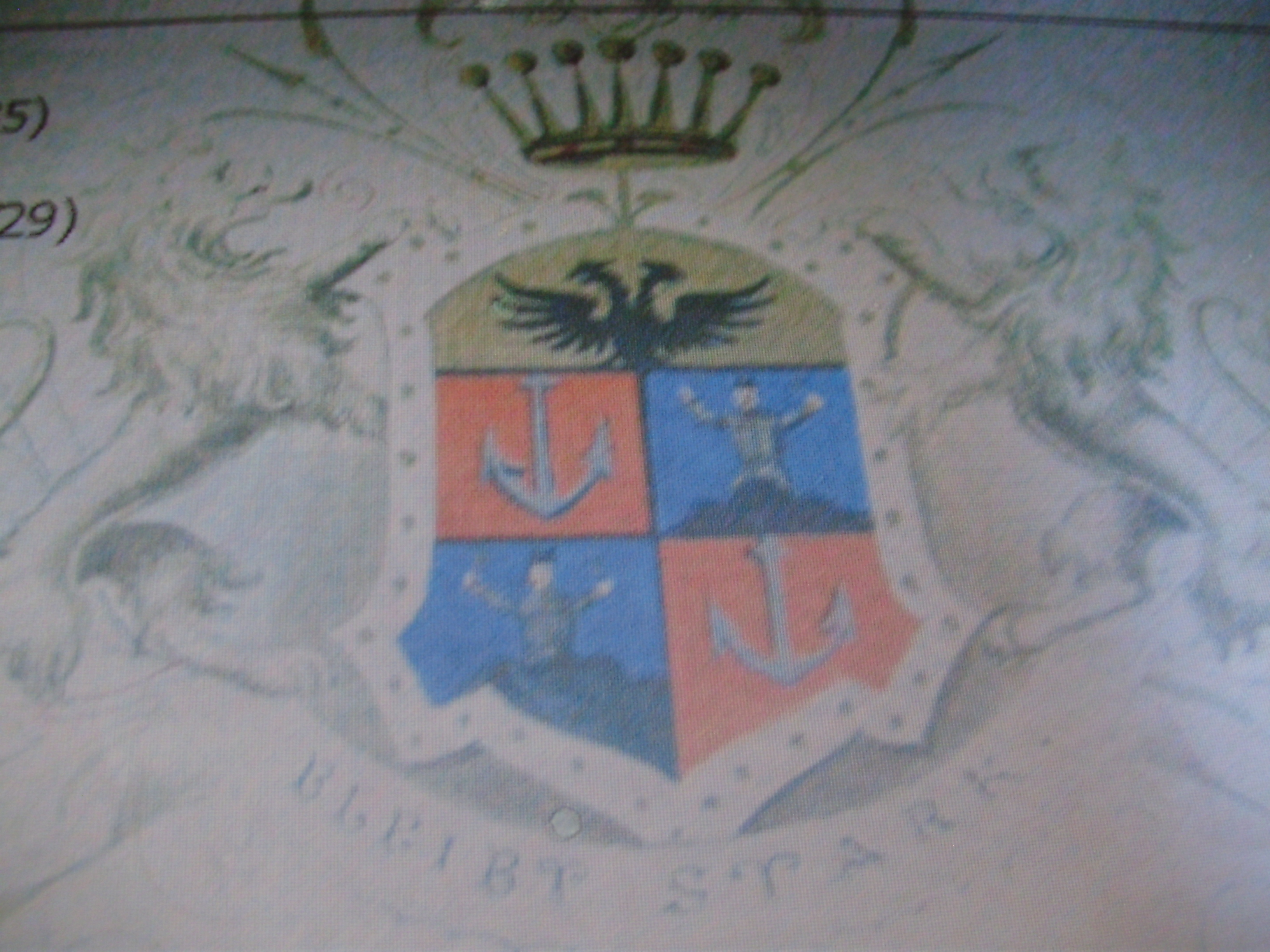 Starck´s Crest